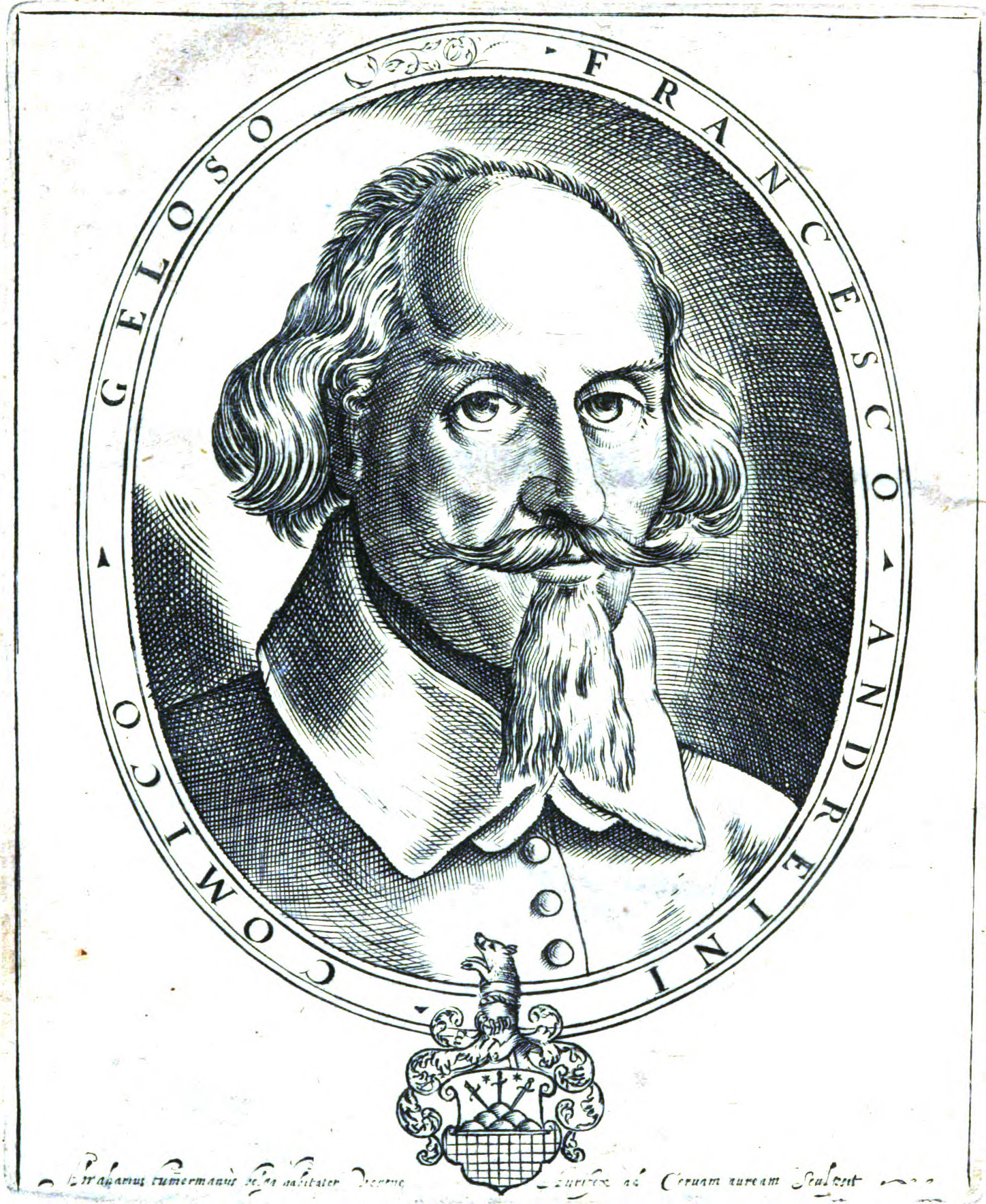 Portrait of Francesco Andreini, Italian actor and director of the troupe of I Gelosi from 1578 to 1604